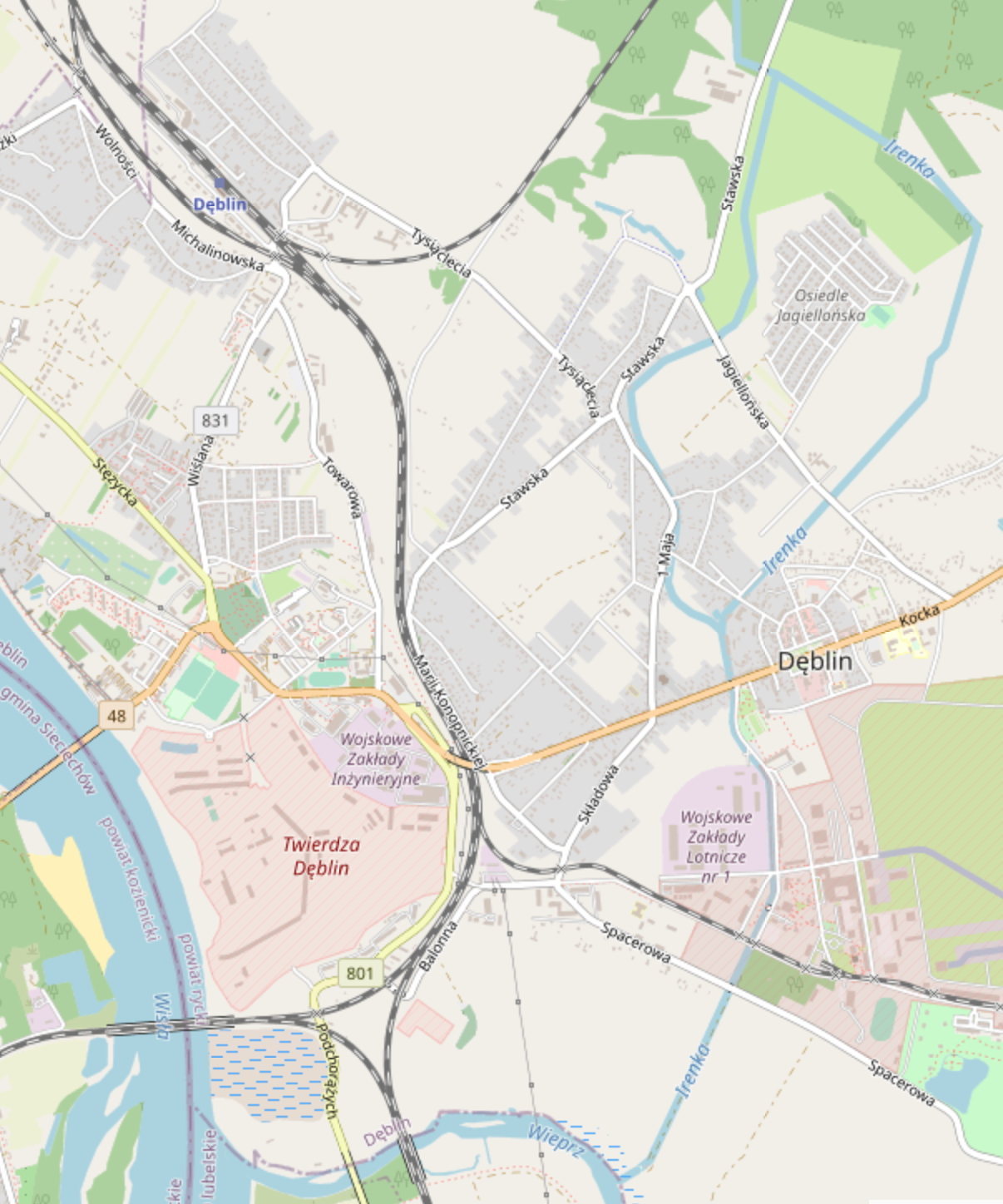 This map may be incomplete, and may contain errors. Don't rely solely on it for navigation.